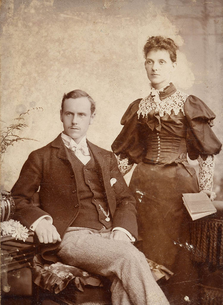 An English couple photographed in 1895